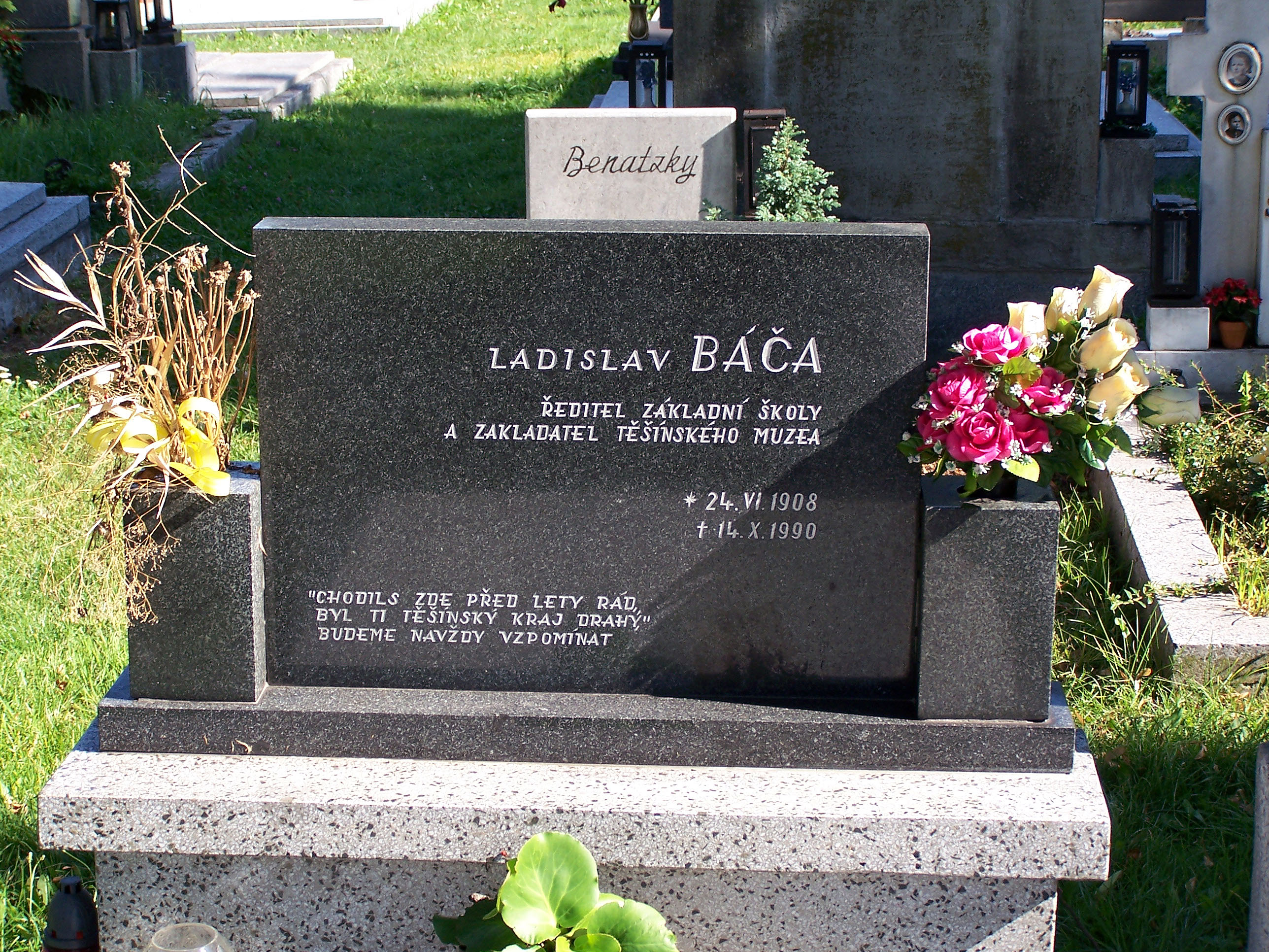 Grave of Ladislav Báča, founder of the Museum of Cieszyn Silesia at cemetery in Český Těšín (Czeski Cieszyn).